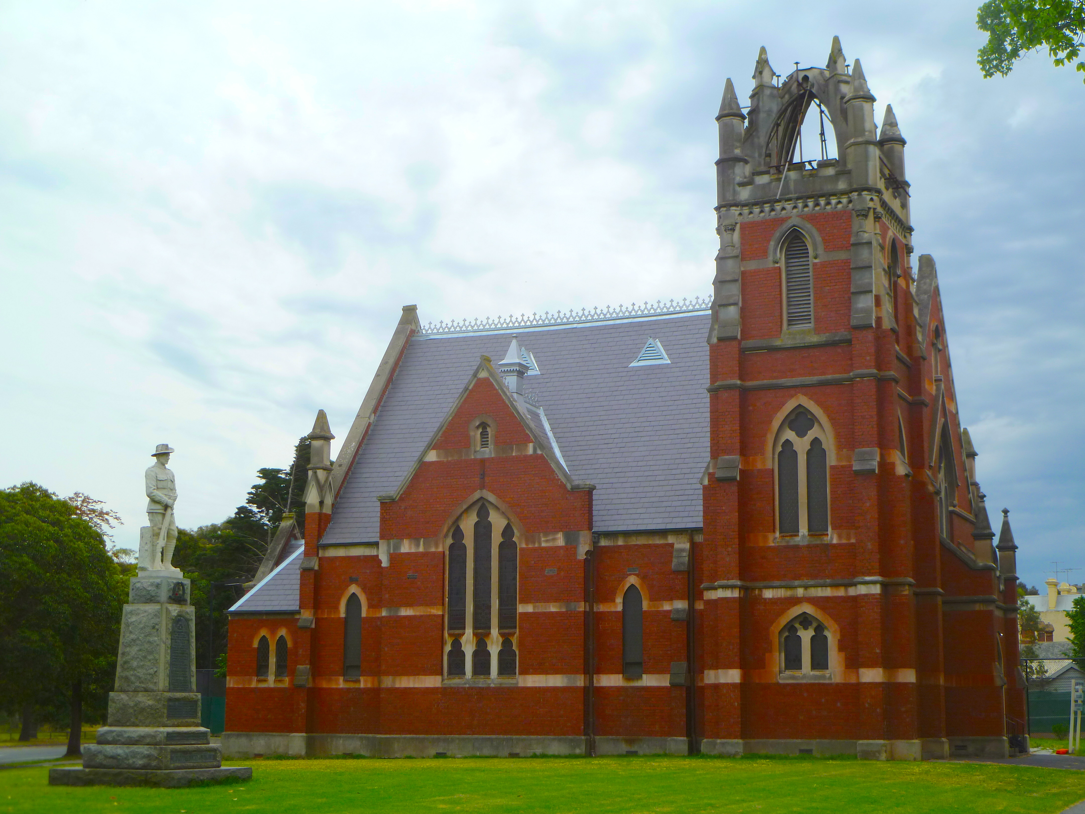 Photograph of Parkville Presbyterian Church, Melbourne, 1898